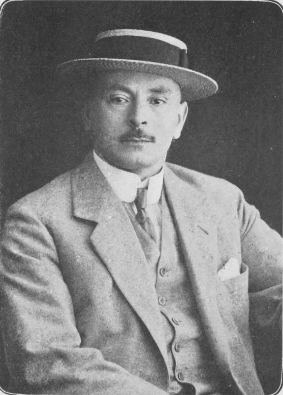 name Mr.M.MENDELS.. political affiliationSocial Democratic Workers' Party